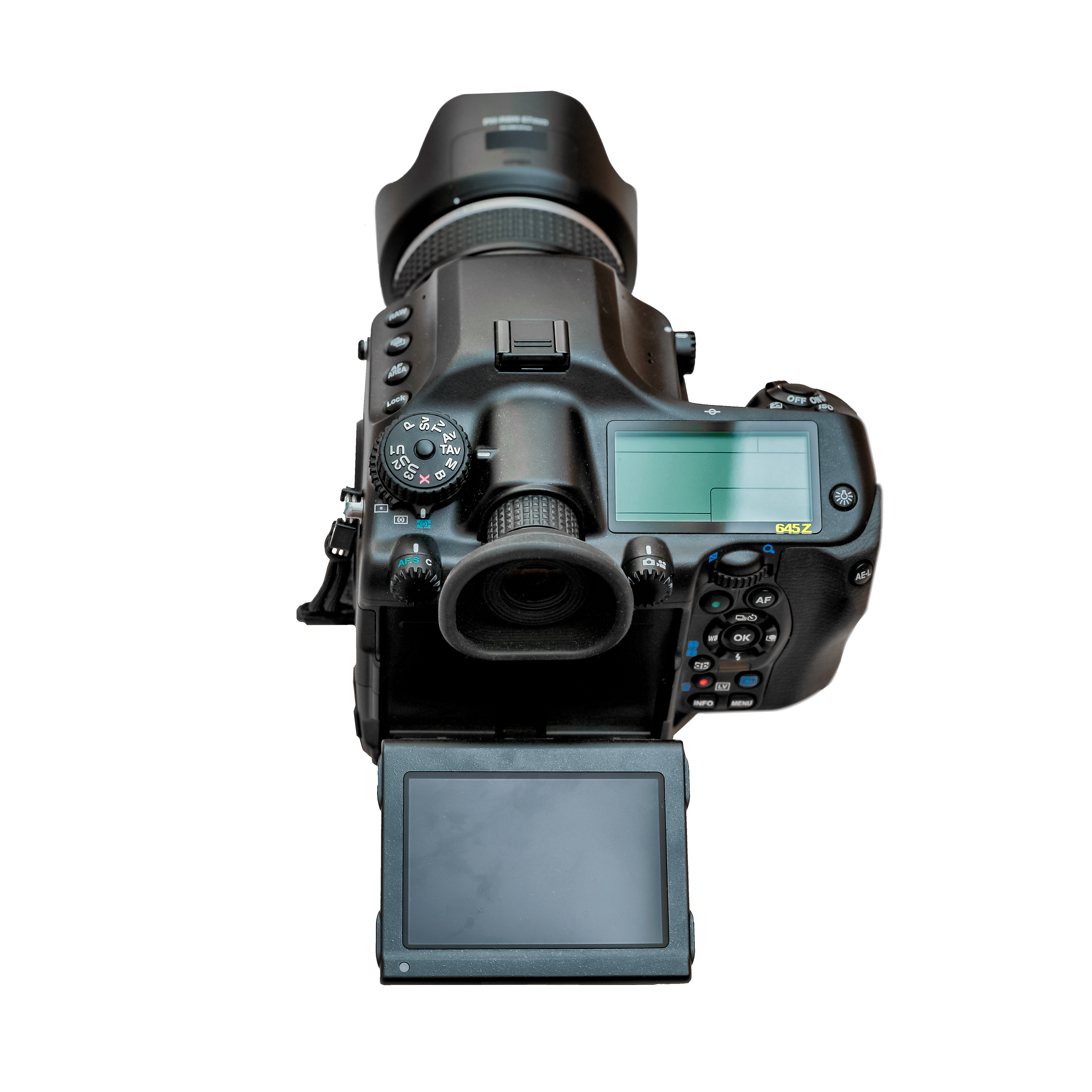 Pentax 645Z - DFA 645 55mm f/2.8